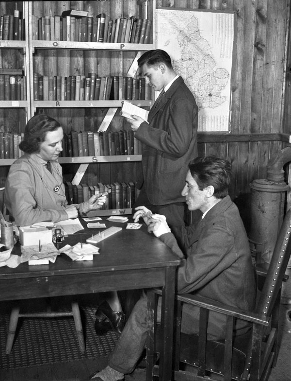 Mrs. Freda Cooper of the Canadian Red Cross playing cribbage with Private W. J. Downey at the No.18 Canadian General Hospital, Royal Canadian Army Medical Corps